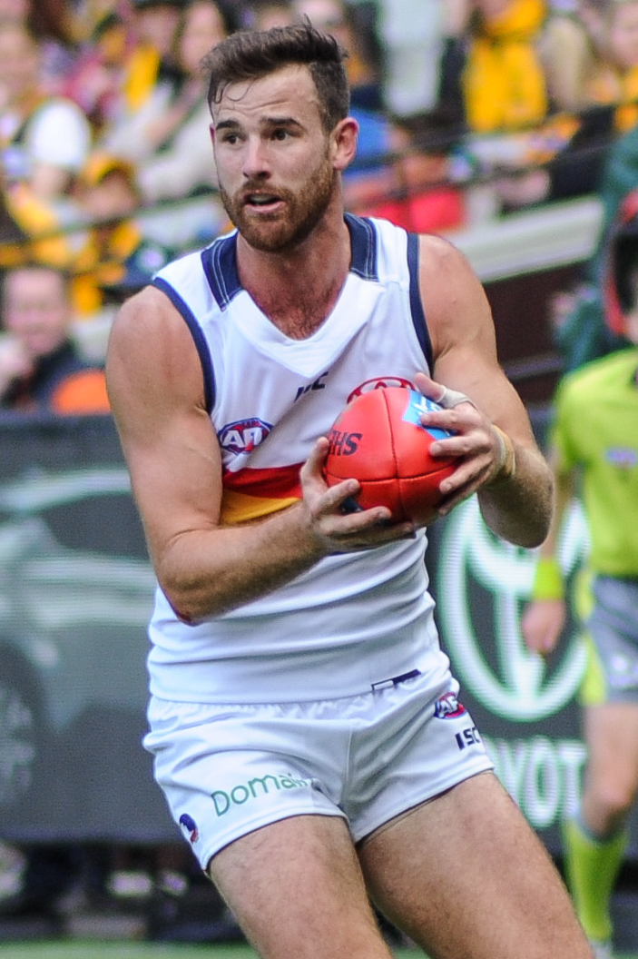 Andy Otten during the AFL round two match between Hawthorn and Adelaide on 1 April 2017 at the Melbourne Cricket Ground in Melbourne, Victoria.